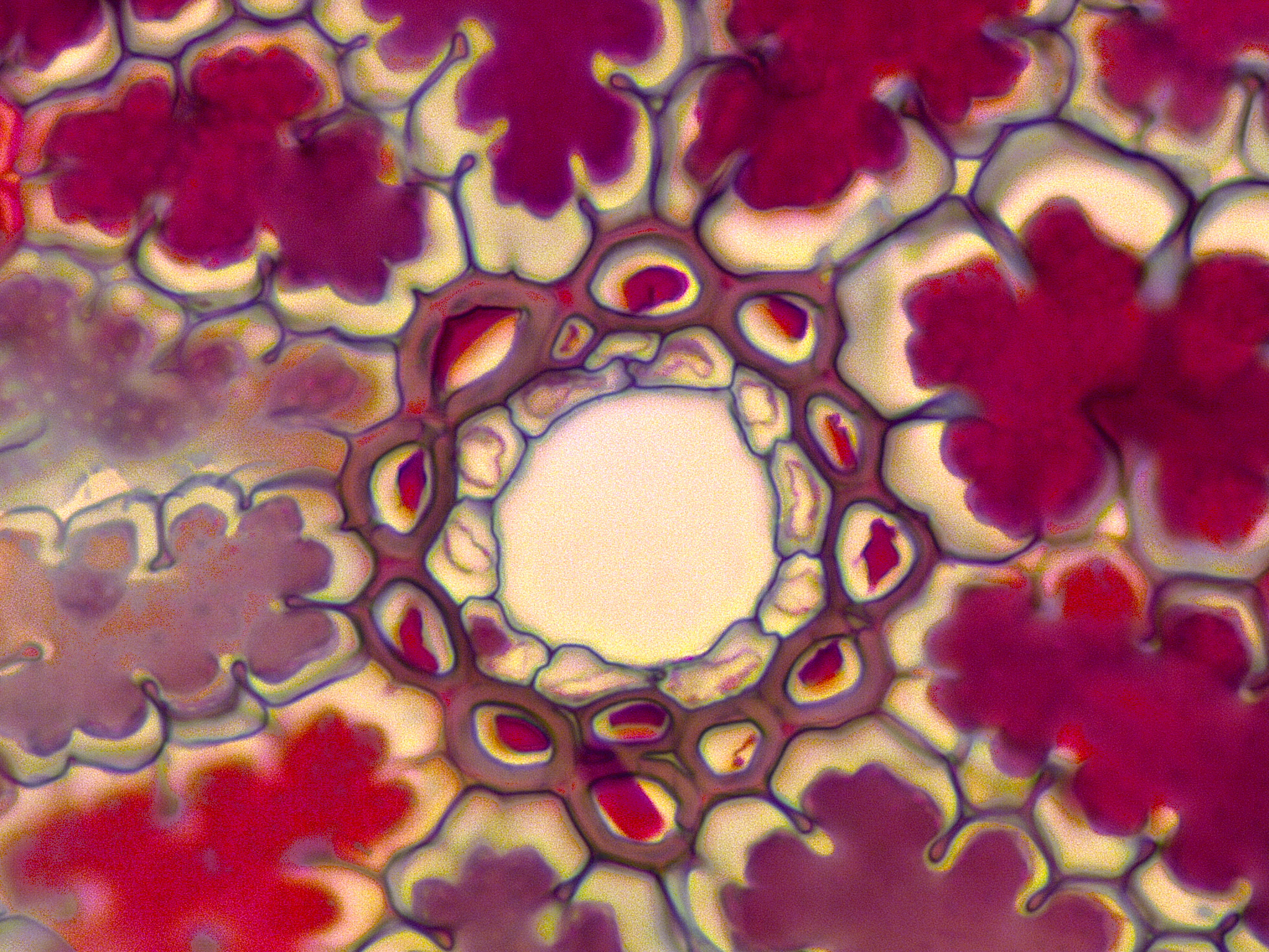 Pinus leaf cross section. A resin canal that is central to spongy mesophyll, has a lumen lined with resin producing parenchyma cells.